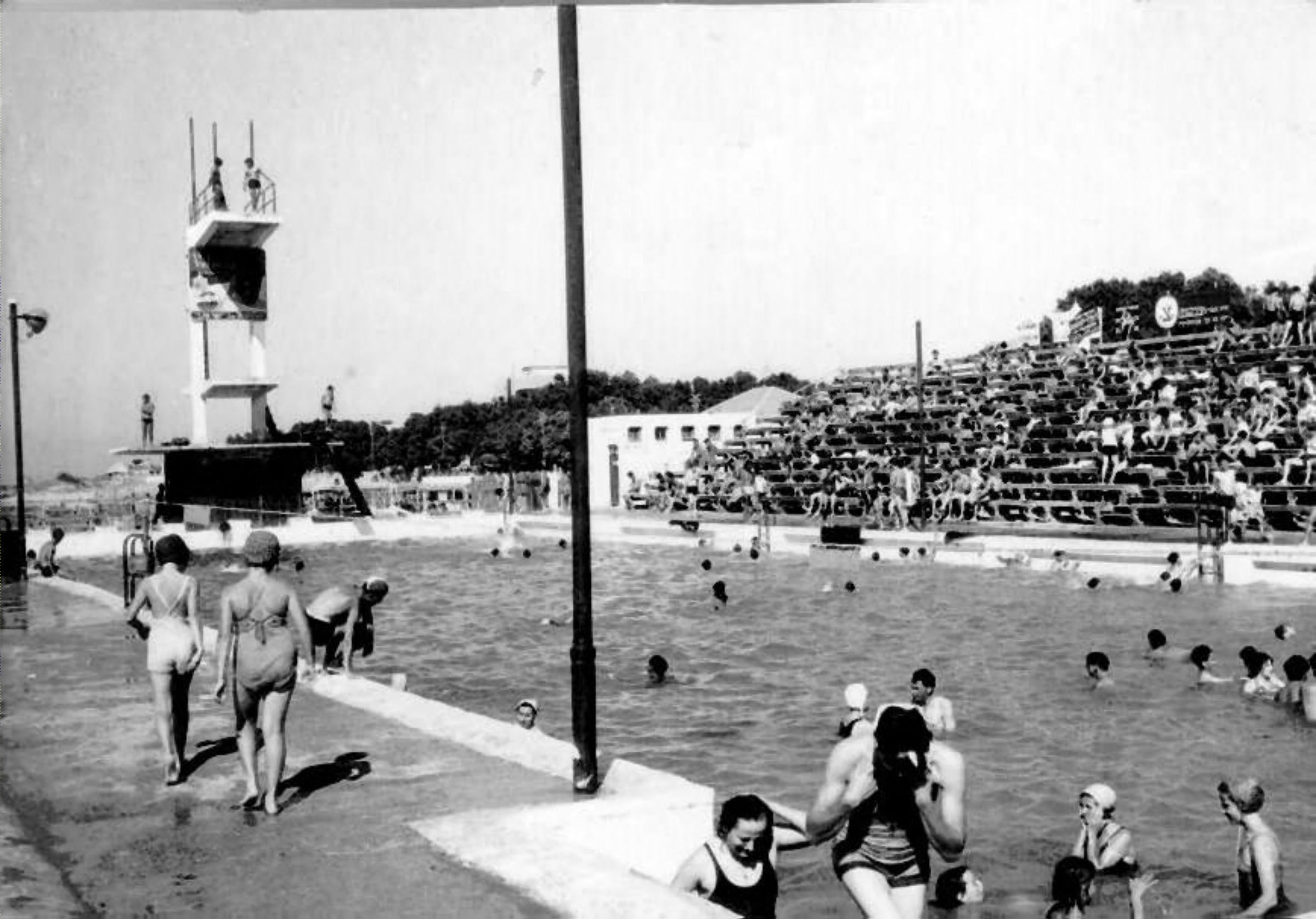 The swimming pool near Bat Galim casino